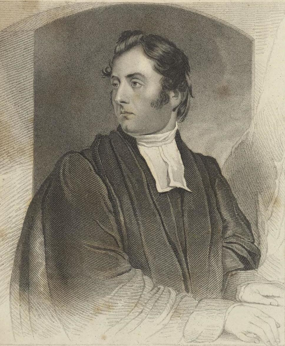 A portrait from the Welsh Portrait Collection at the National Library of Wales. Depicted person: William Lucy – clergyman, Bishop of St David's